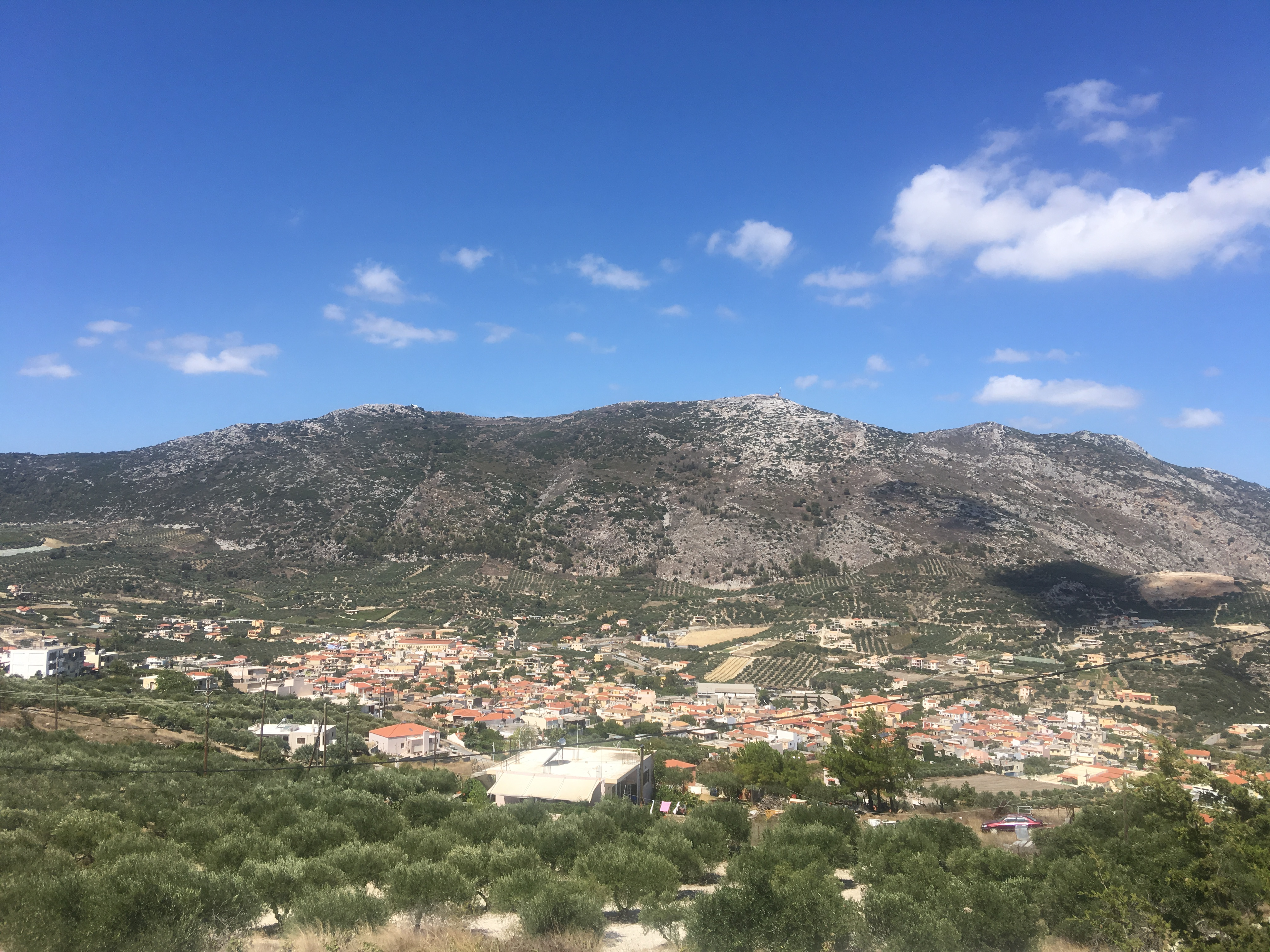 An Archanes overlook at a sunny day in August 2018.